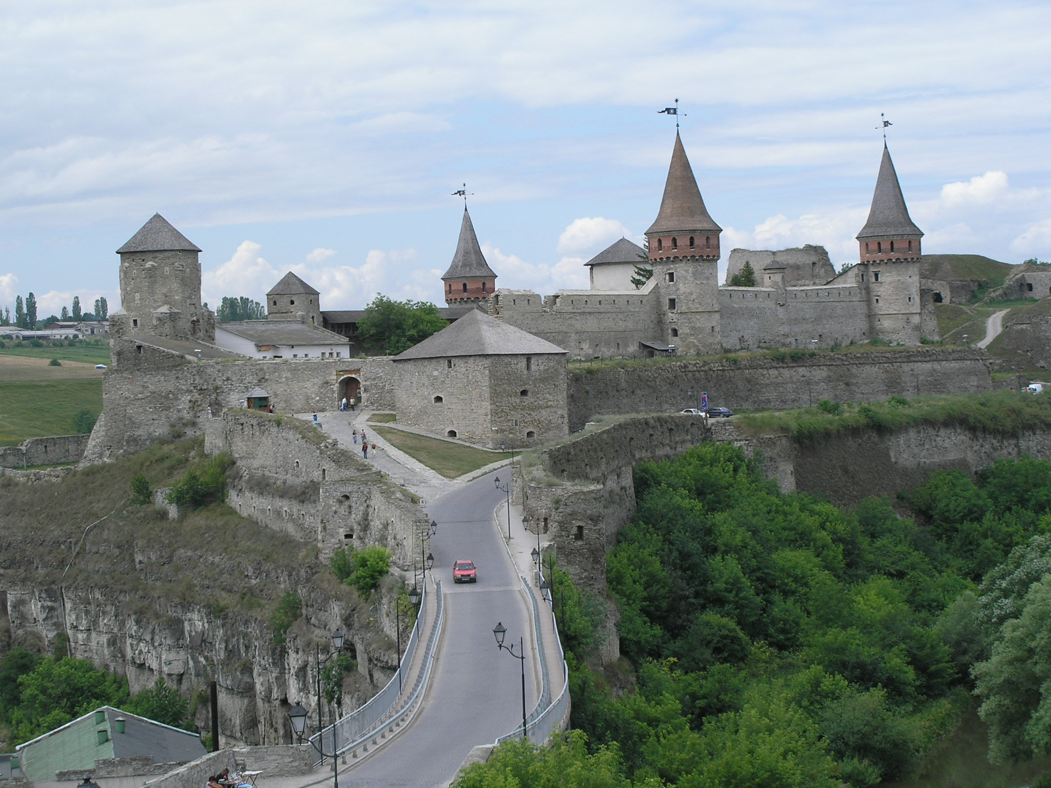 The Kamianets-Podilskyi Castle in Kamianets-Podilskyi, Ukraine